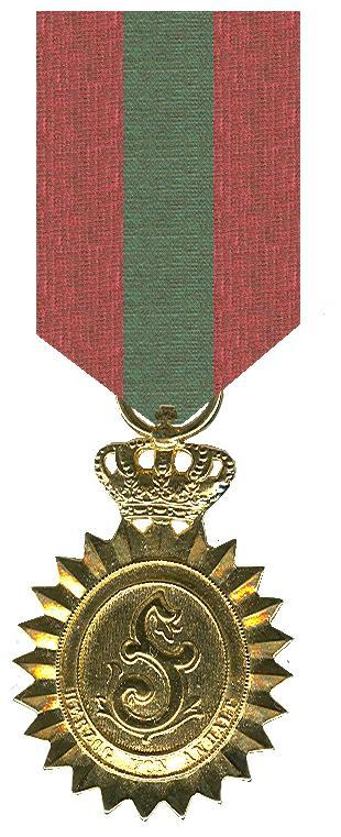 Neck badge of the Order of Merit for Science and Art (1875–1918) from the Duchy of Anhalt. Scan of a decoration in my own collection Robert Prummel